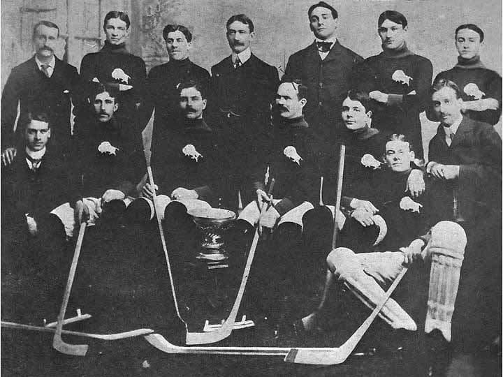 Winnipeg Victorias, winners of the Stanley Cup in 1901, posing for a photo with the Cup. Back row: M. Hooper, trainer, E.B. Wood, left wing, Jack Marshall, spare, J.C.G. Armytage, President, G.A. Carruthers, right wing, A.B. Gingras, spare, F.T. Cadham Front row: W.E. Robinson, secretary-treasurer, C.W. Johnstone, rover, R.M. Flett, point, Dan Bain, centre (captain), M.L. Flett, cover-point, A.J. Brown, goaltender, Walter Pratt, Jr.